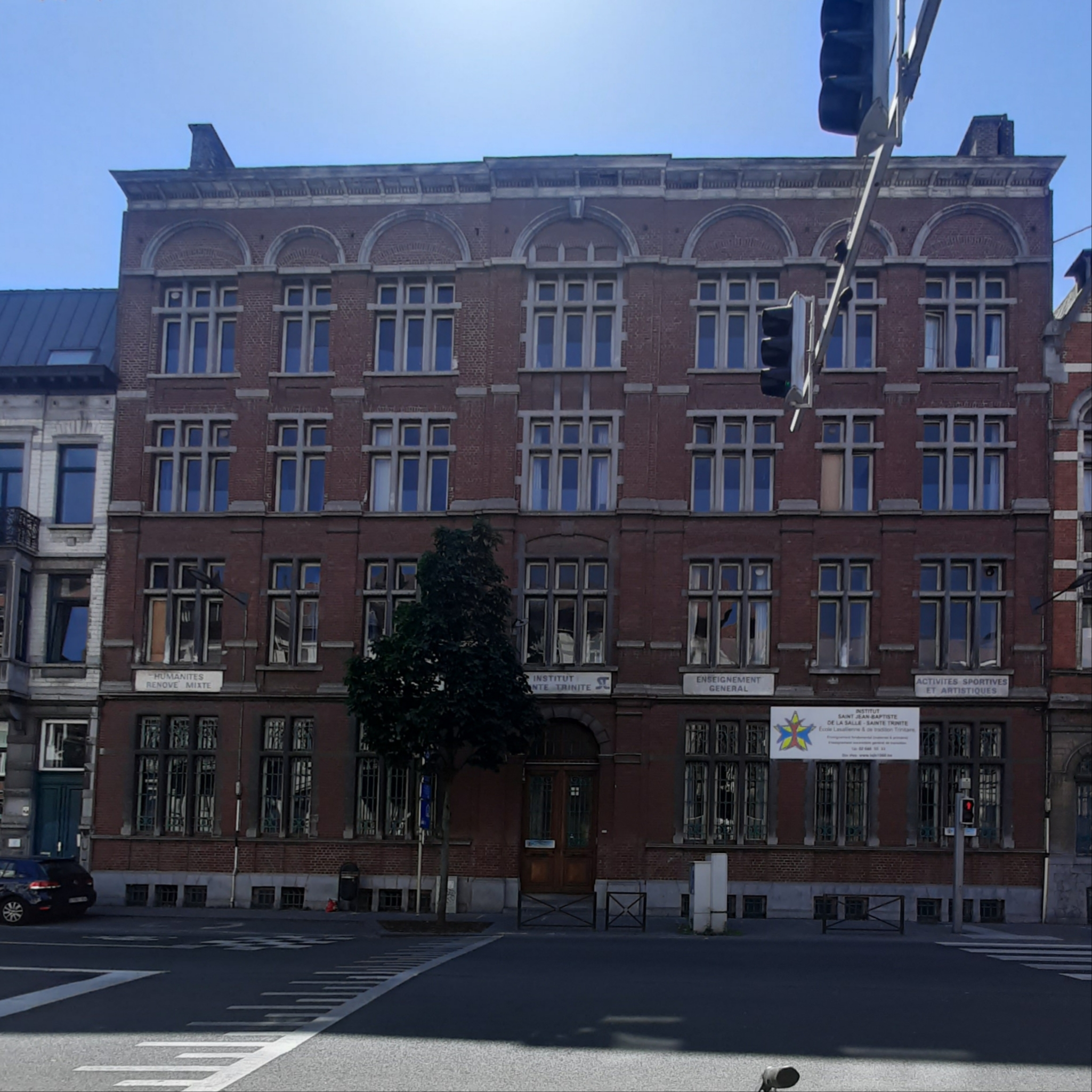 Avenue de la Couronne 107, Institut Sainte Trinité, bâtiment de 1896.